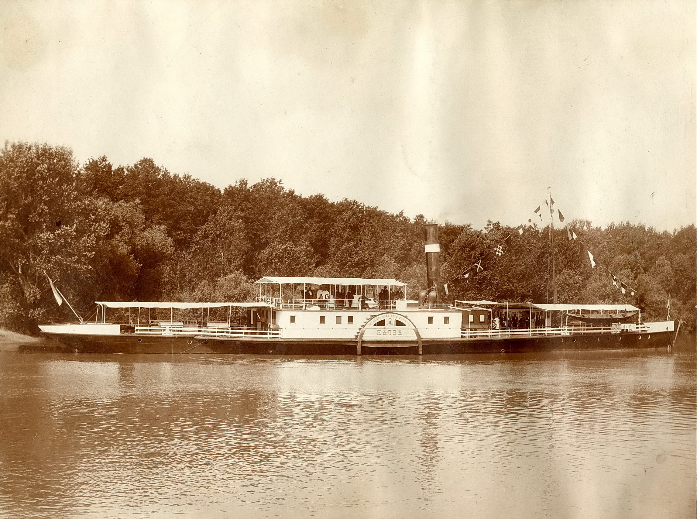 Steamboat Mačva, Serbian Shipwreck Society, a clip from 1924.